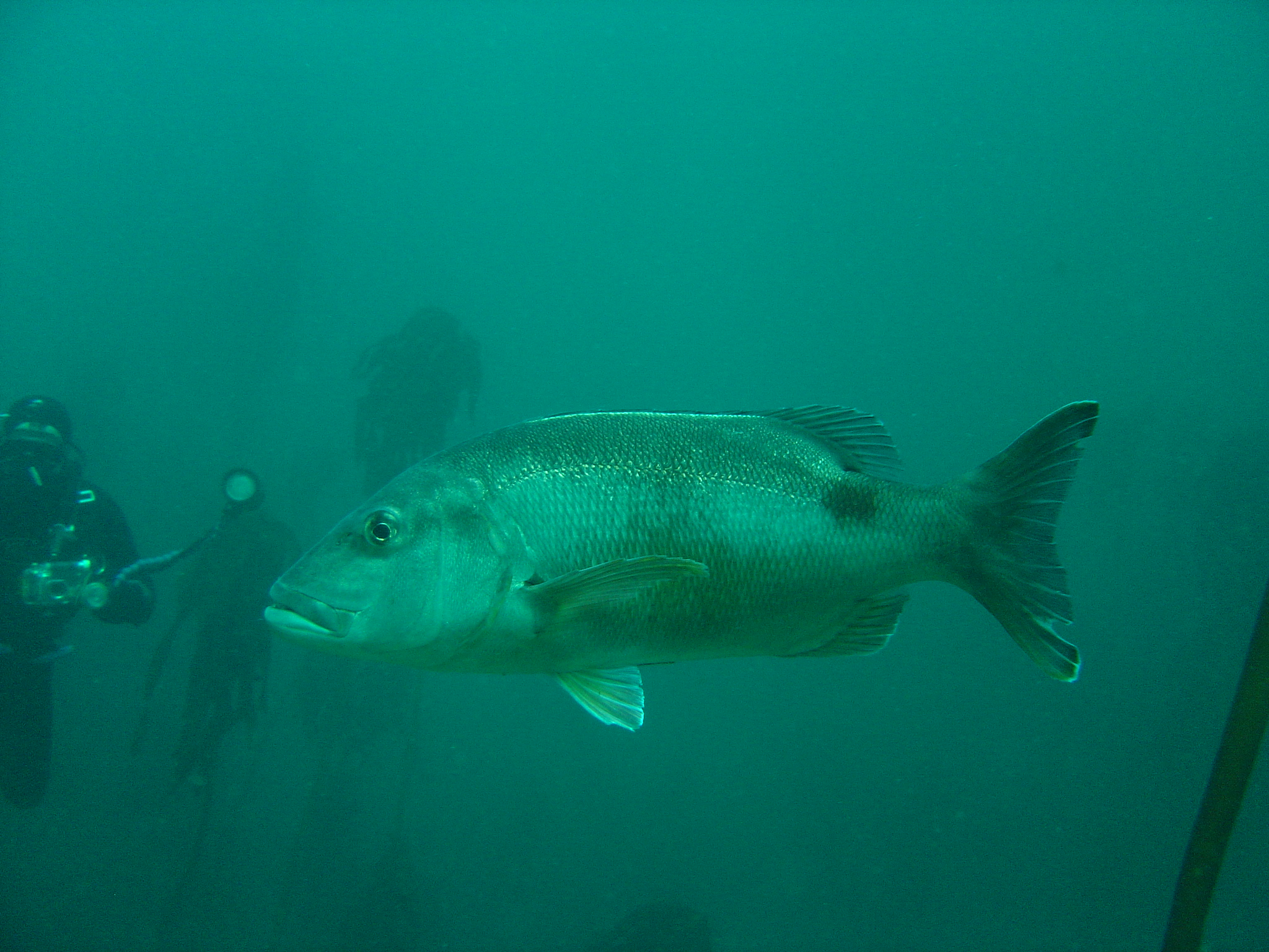 Red Steenbras at Shark Alley dive site, Castle Rocks.